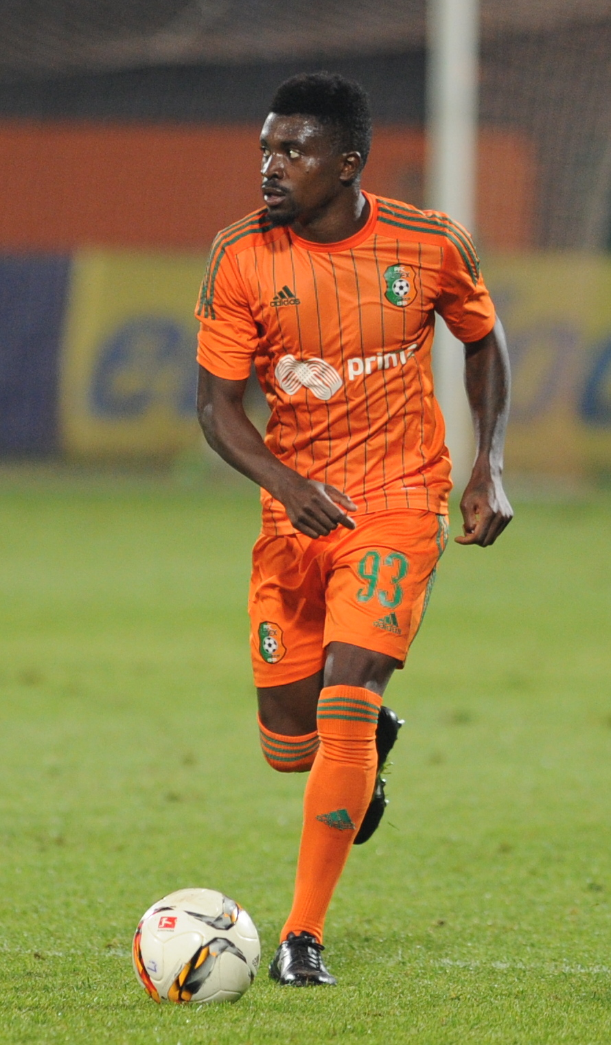 Petrus Boumal